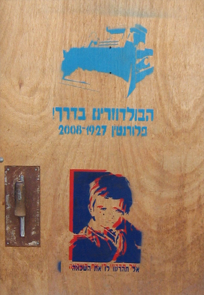 graffiti on Fraenkel st.